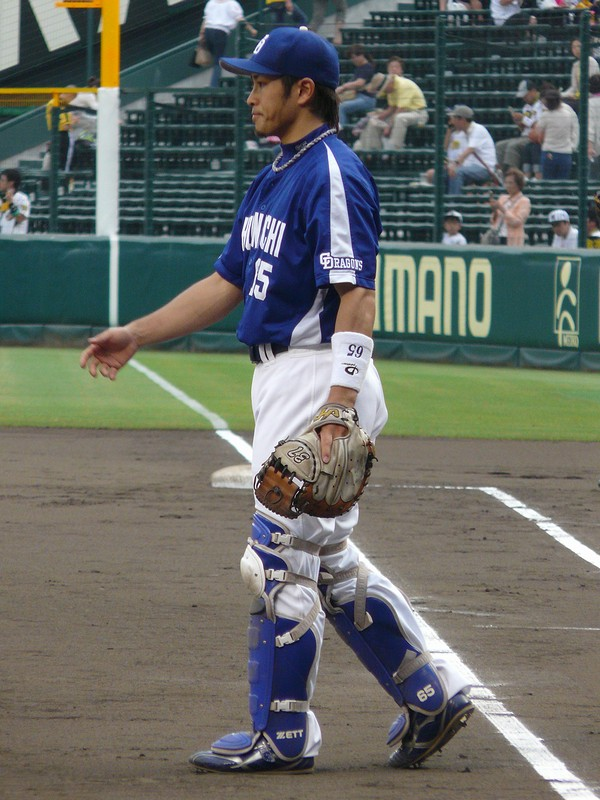 Keiji Oyama, catcher of the Chunichi Dragons, at Hanshin Koshien Stadium.